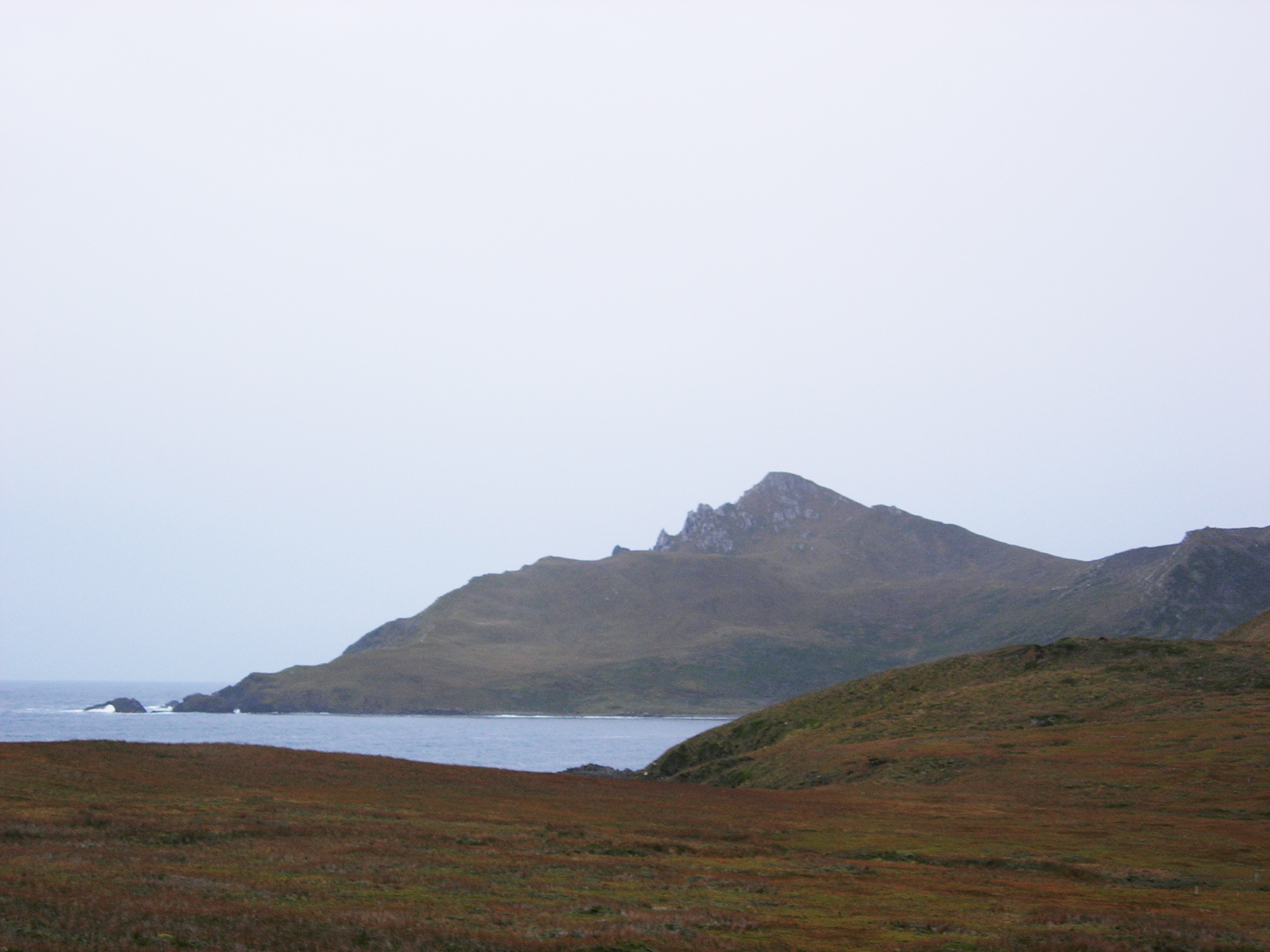 Description = Cap Horn vu de l'ile Horn ( Chili ) Source =Photo taken by Remi Jouan Date =Avril 2006 Author =Remi Jouan